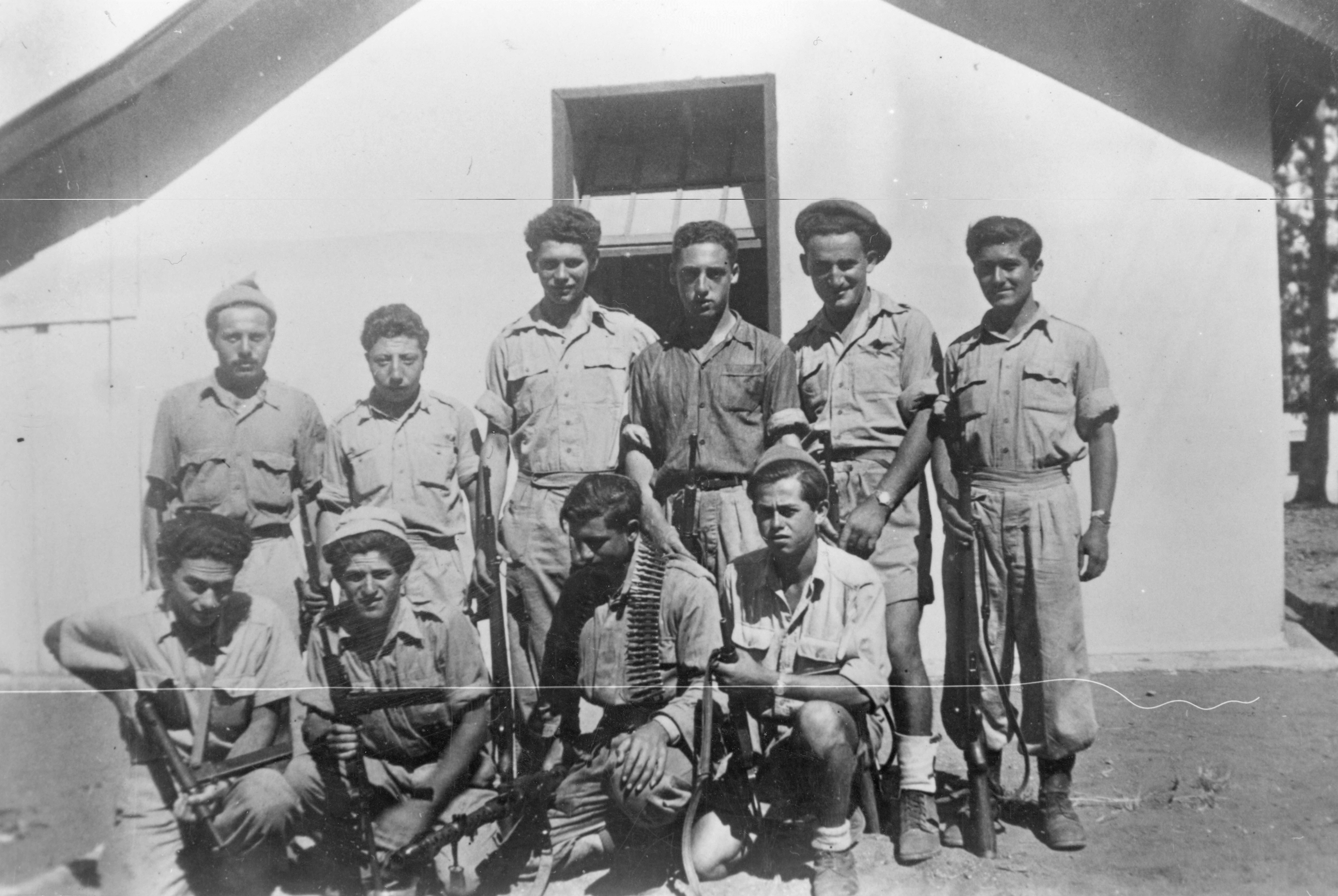 The Palmach, Israel Defense Forces